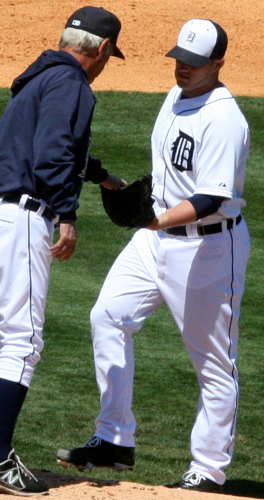 Jess Todd (right) and others on the mound for the Detroit Tigers during a 2013 spring training game.